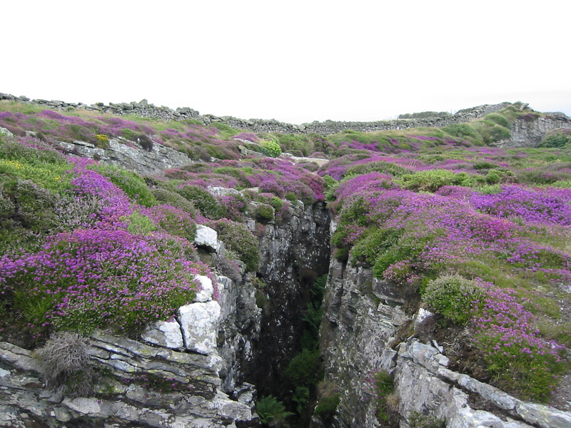 Fissured rock (limestone-karst?) near Port Erin, Isle of Man